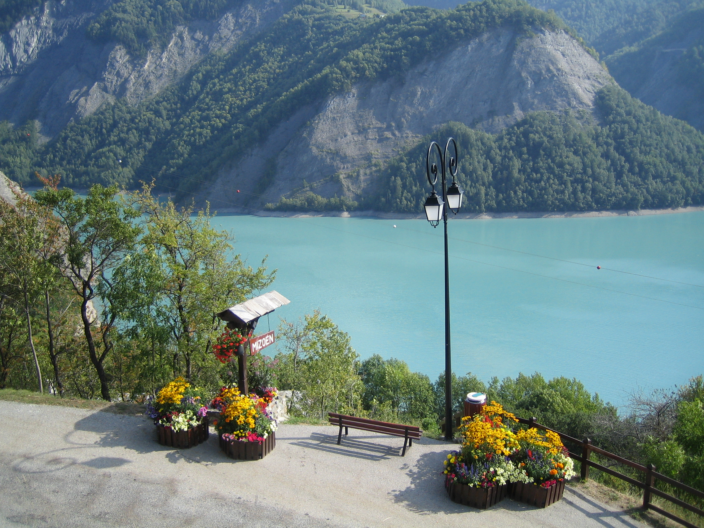 Lac du Chambon, as seen from Mizoën, in the French Alps (département de l'Isère). Photo taken by User:thbz, summer 2005.